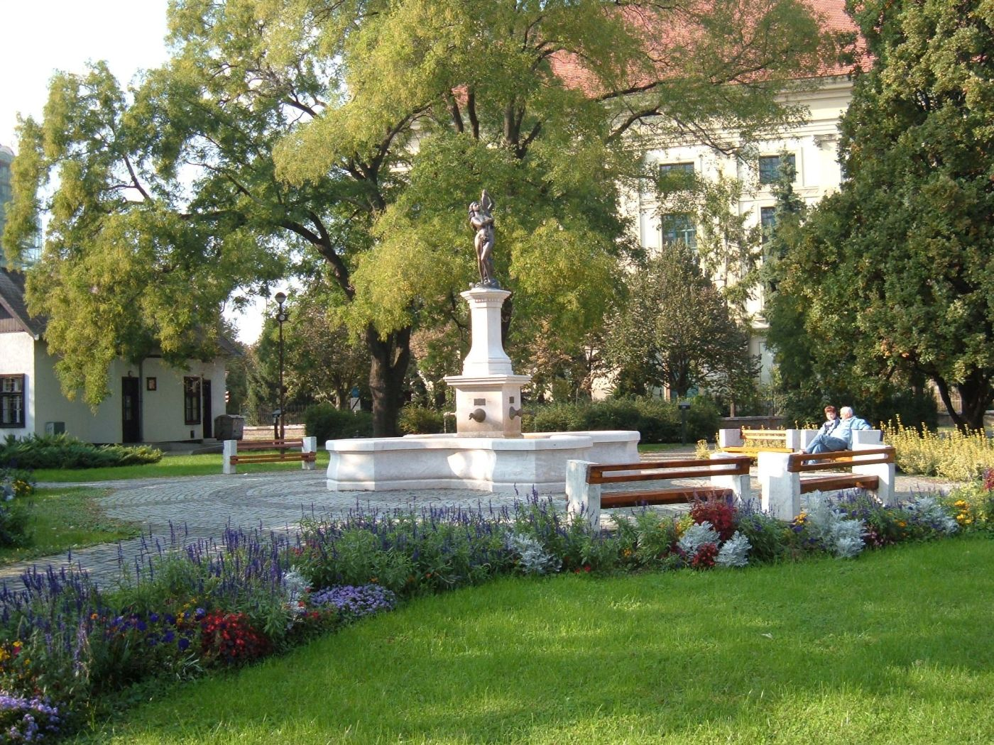 The square Kossuth and the well of Halászlány (Fishergirl)